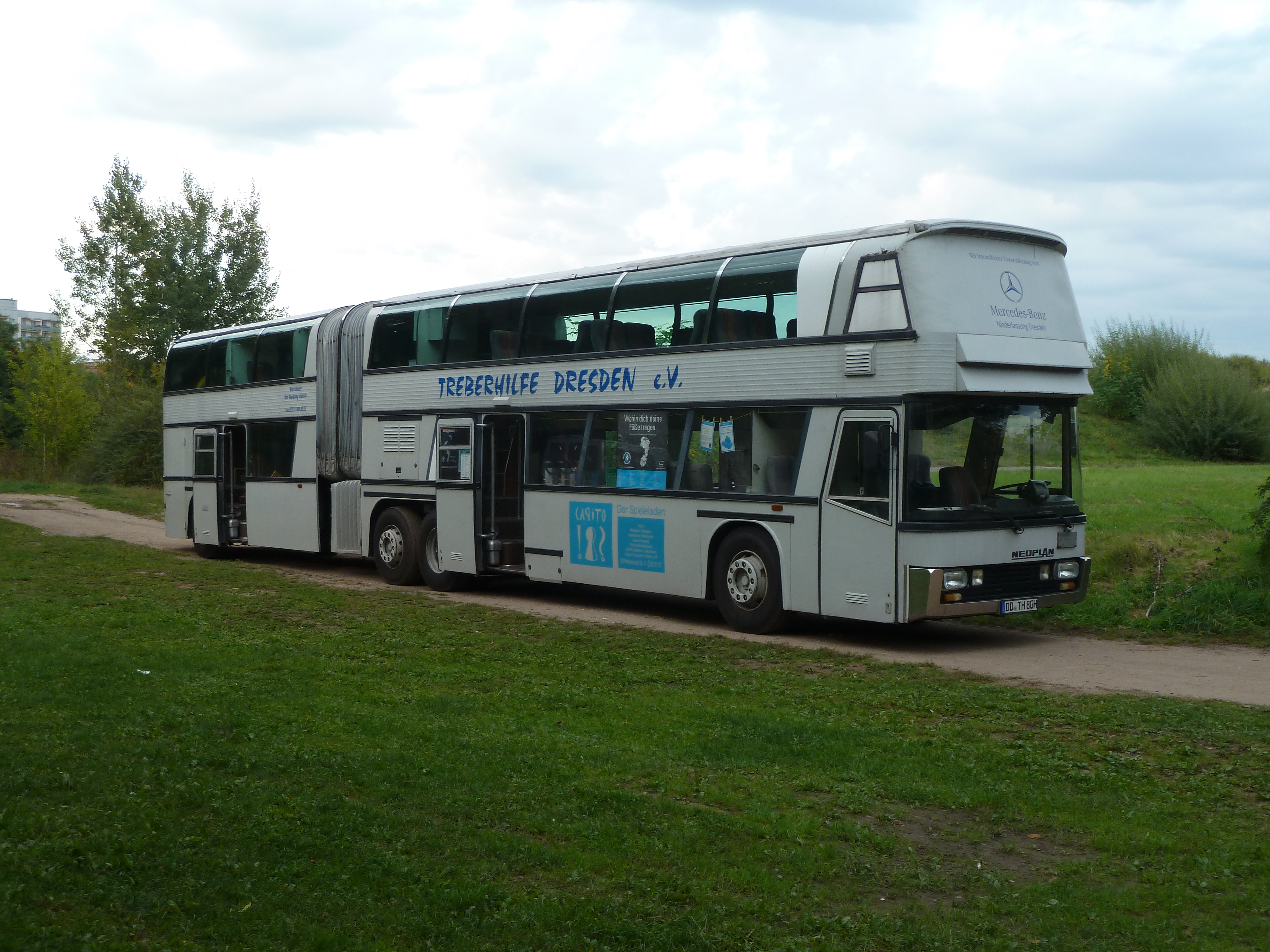 Neoplan Jumbocruiser in Dresden